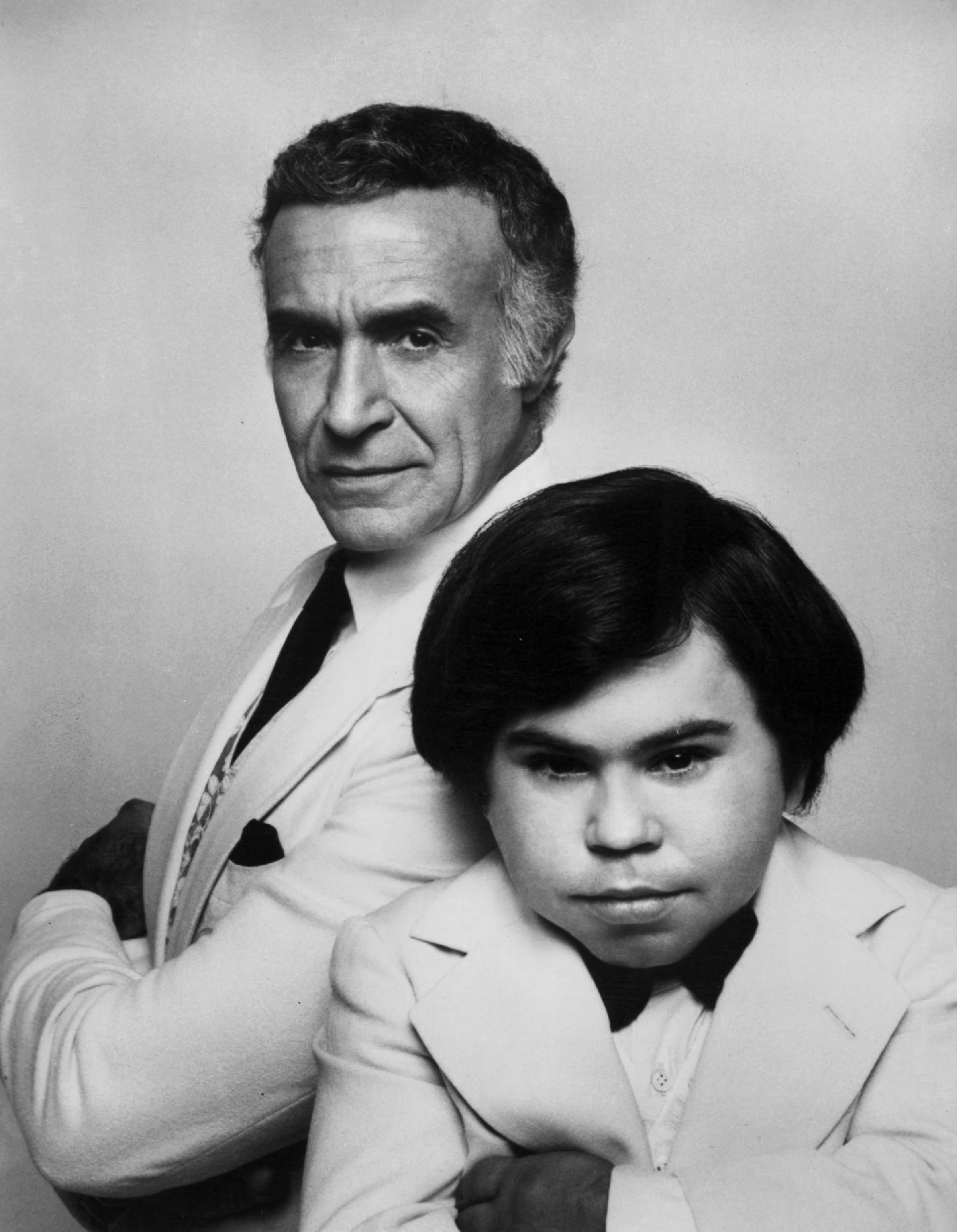 Photo of Ricardo Montalban as Mr. Roarke and Herve Villechaize as Tattoo from the made for television movie Return to Fantasy Island. The made for television films preceded the television series with both actors in the same respective roles.